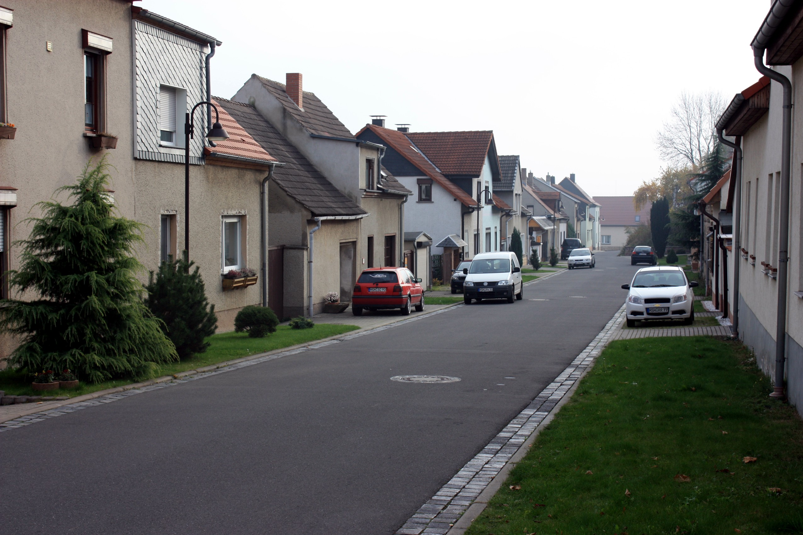 Benndorf (Mansfelder Land), the Ernststraße